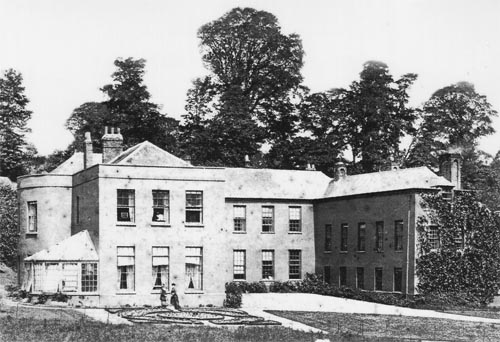 Radford House in the parish of Plymstock, Devon, south and west fronts and entrance courtyard, photograph c.1880. Demolished 1937. Photo in collection of N. Mitchell, grandson of W.A. Mitchell, owner of Radford)